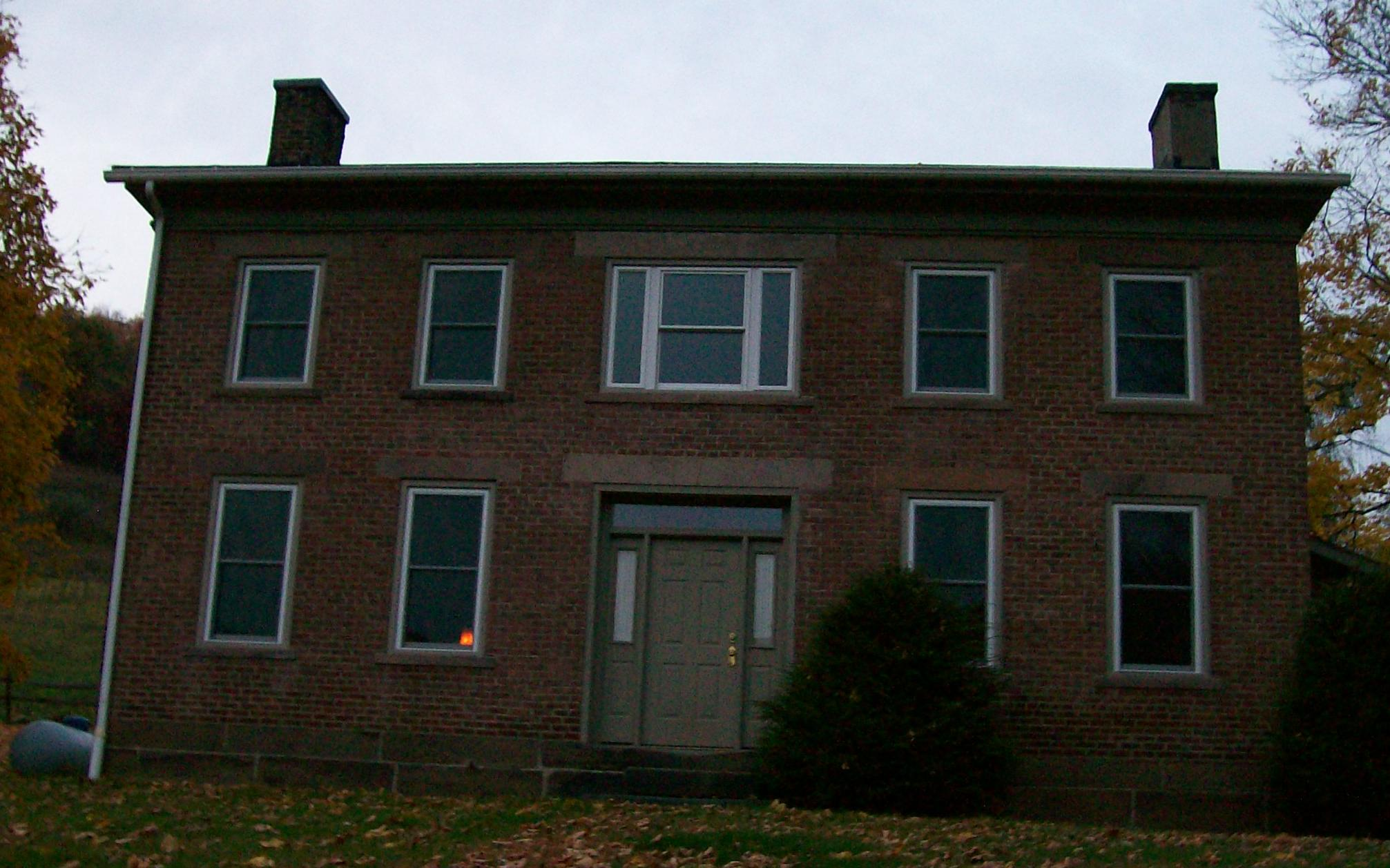 Booth Homestead just north of Guernsey, Ohio.